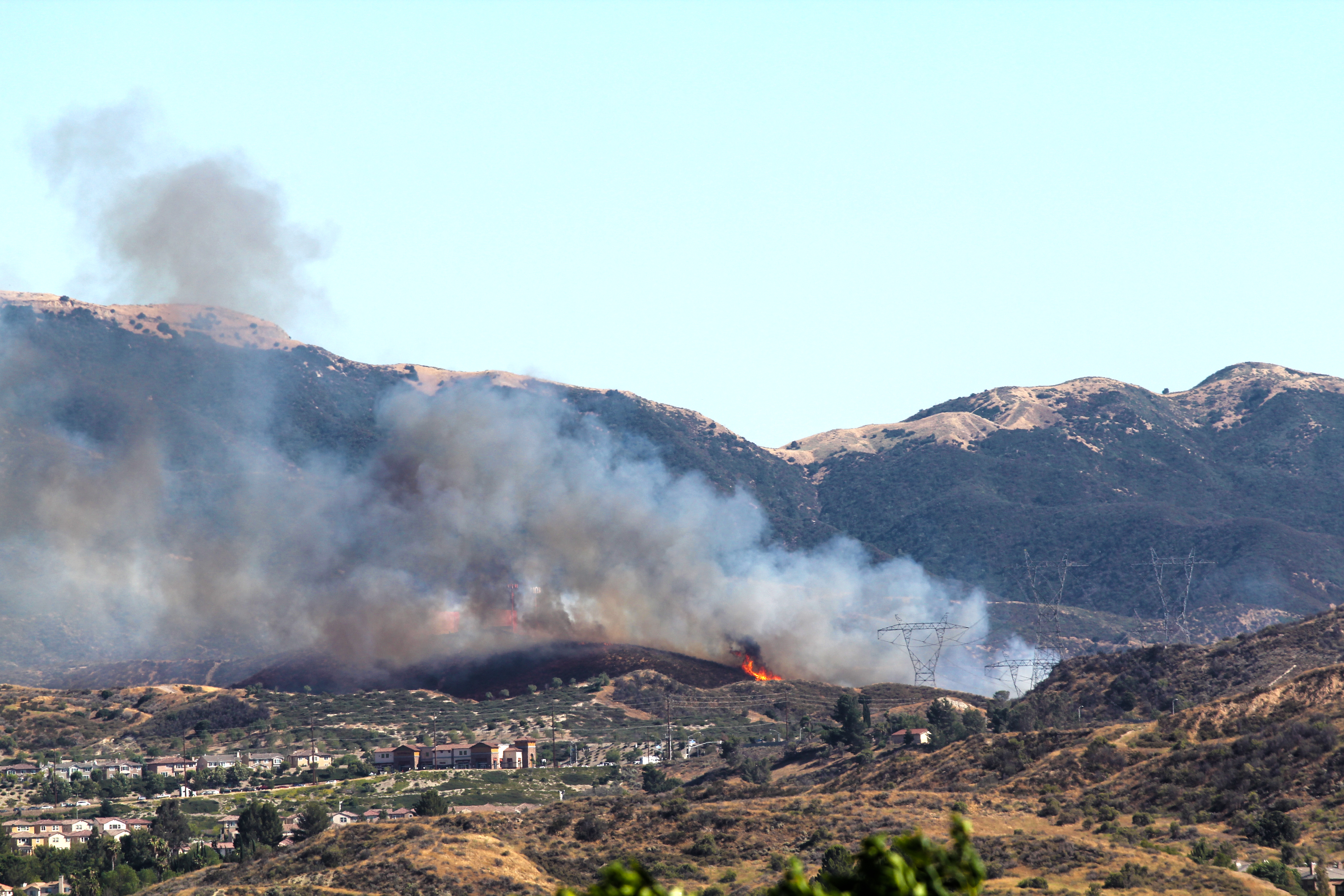 Large flames visible during the Placerita Fire in Santa Clarita